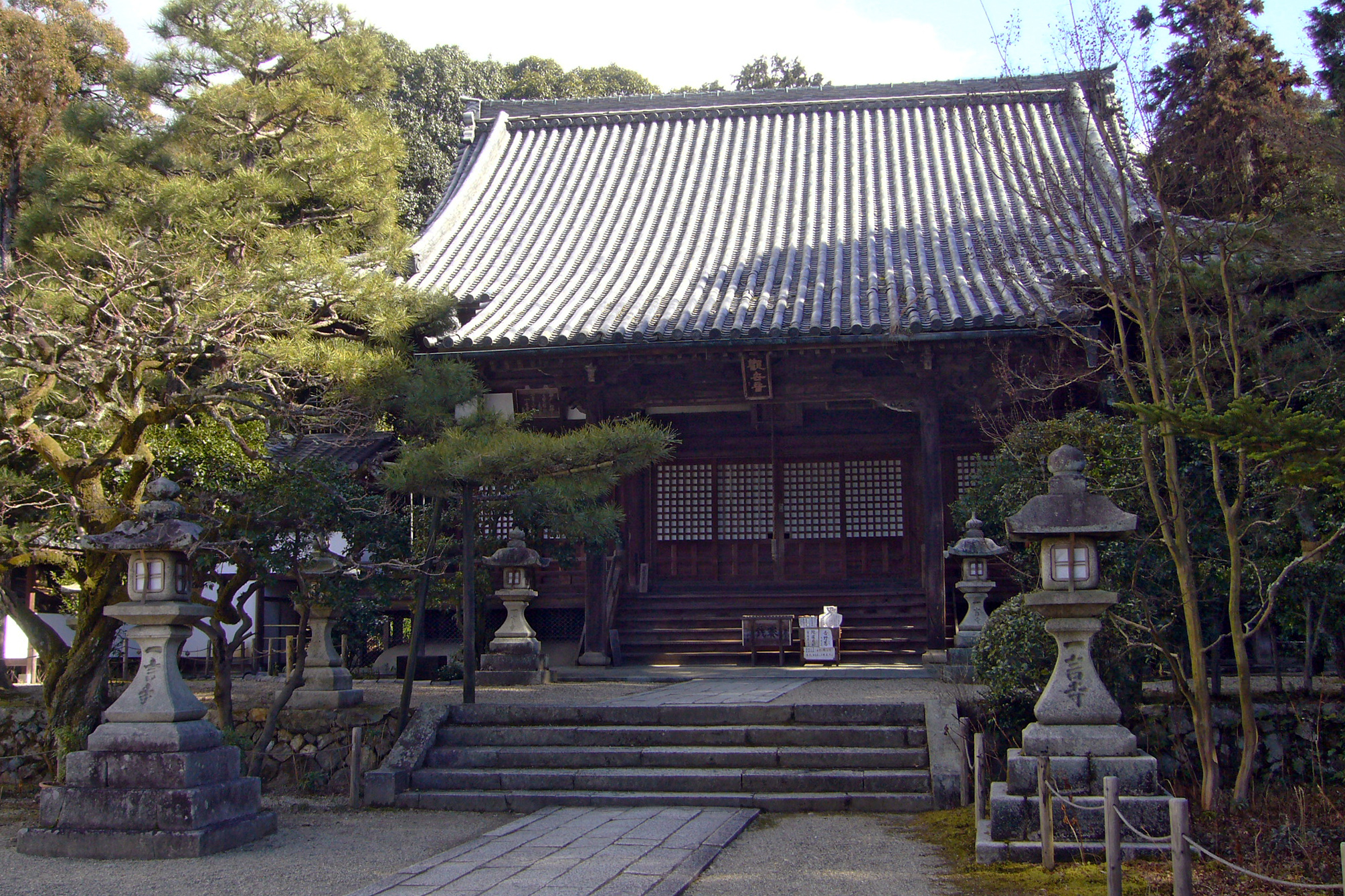 Ichigonji in Kyoto, Kyoto prefecture, Japan